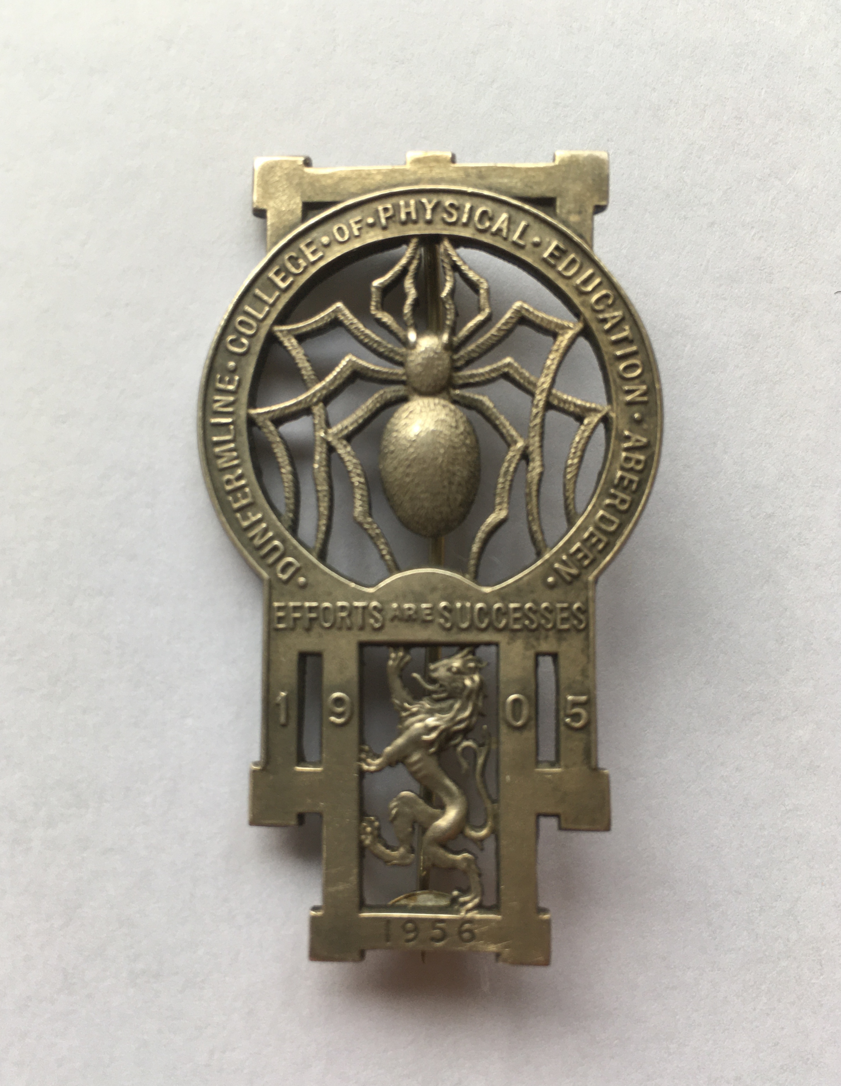 Dunfermline College of Physical Education badge, awarded on graduation.